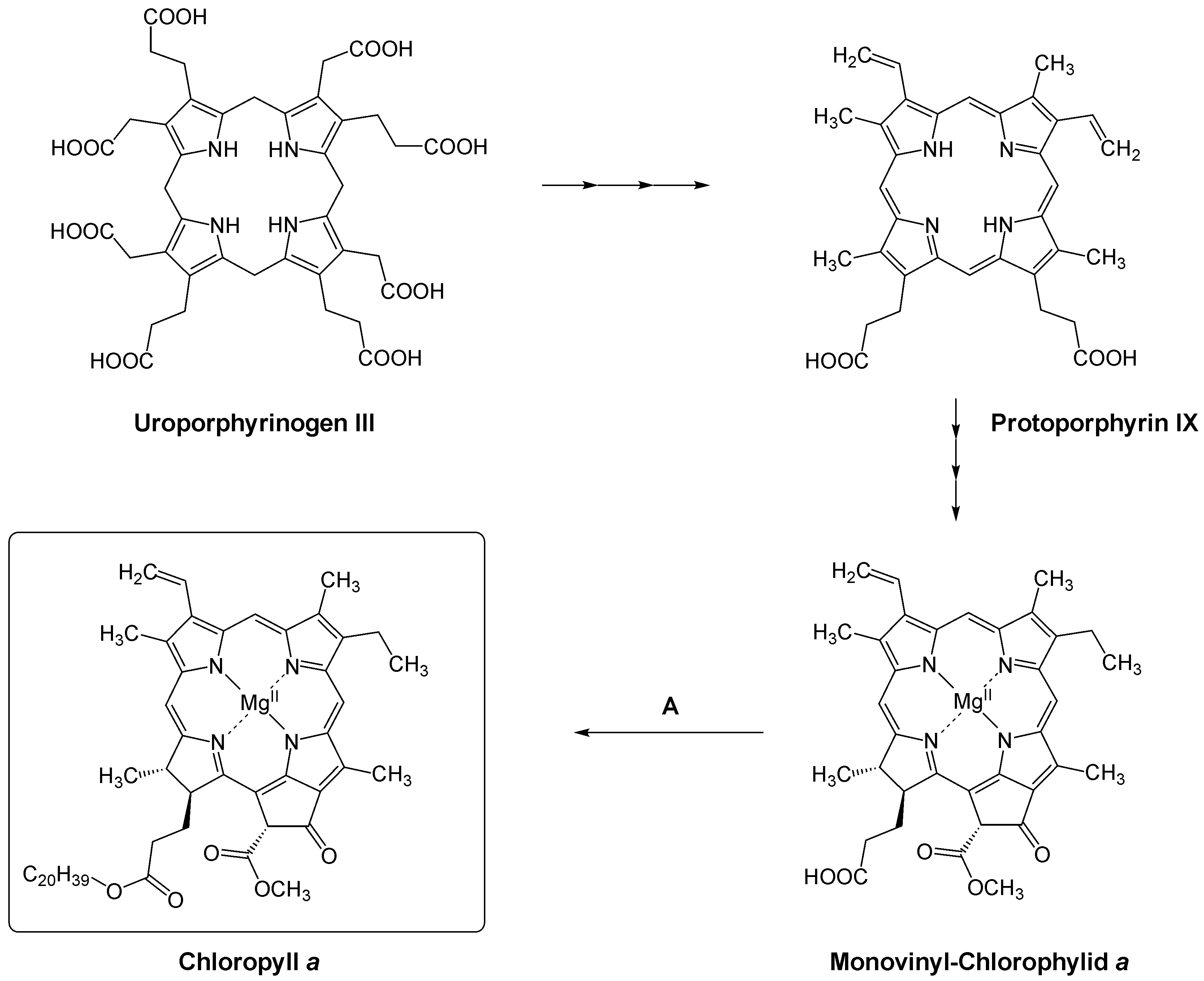 biosynthesis of chlorophyll a (part)